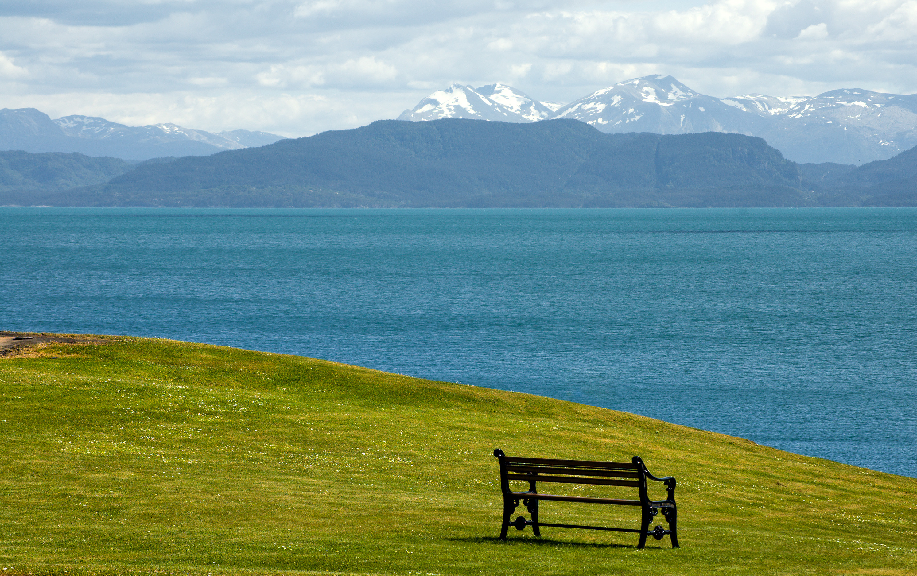 View of the fjord of Fusafjorden in Hordaland county, Norway, from Soltrand Hotel in Os municipality.